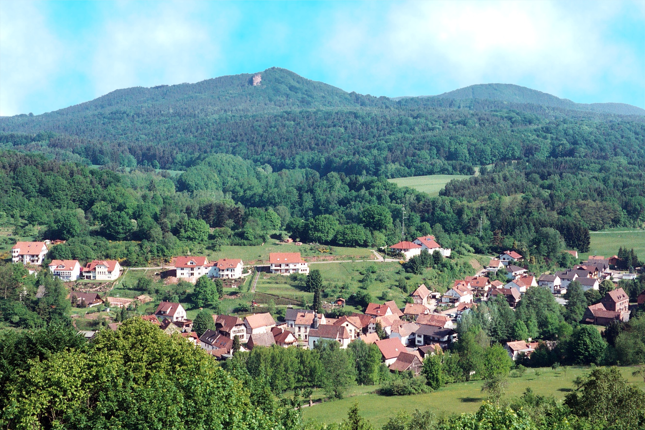 View from the Berwartstein castle to Erlenbach bei Dahn